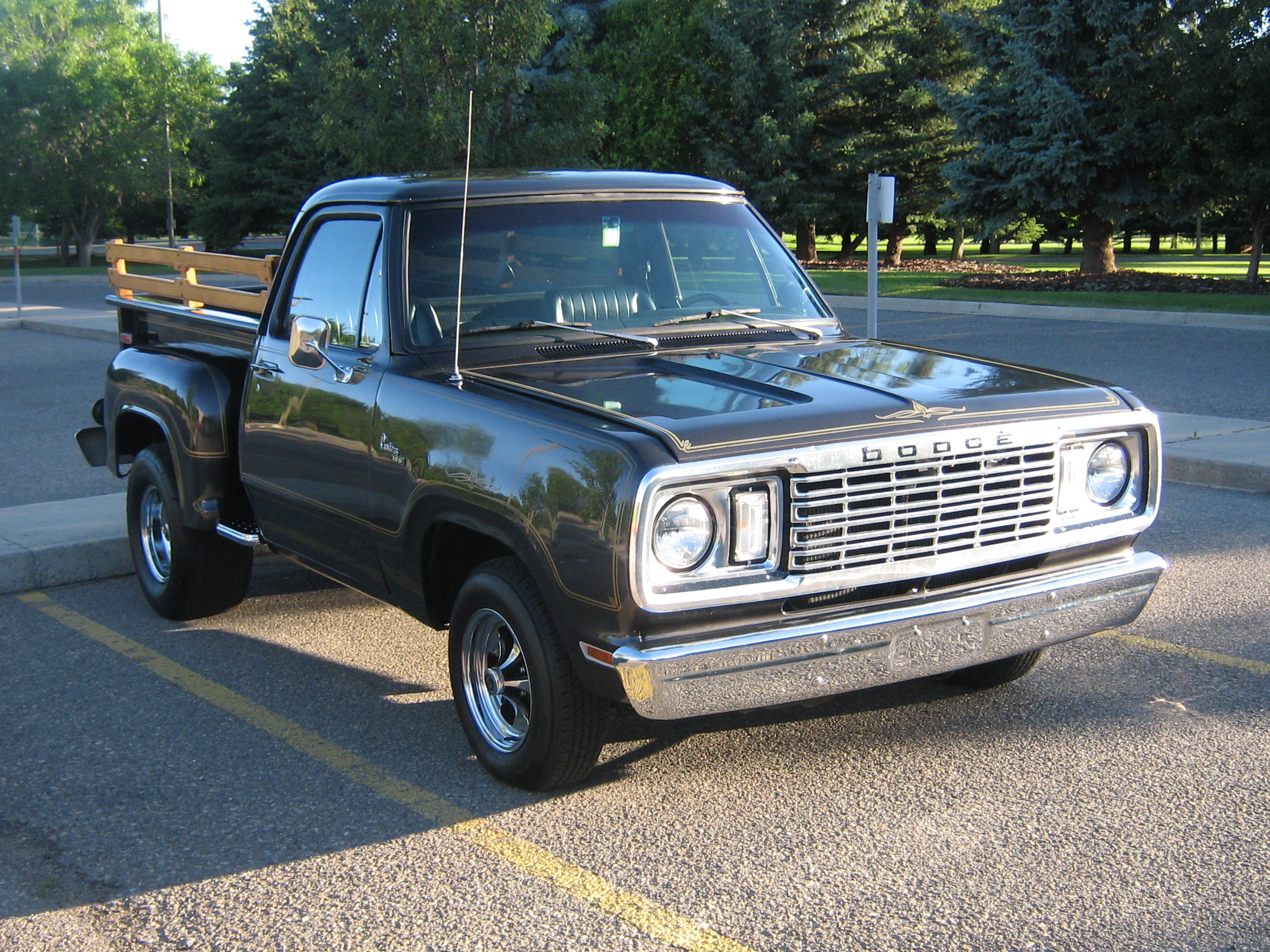 Dodge Custom 100